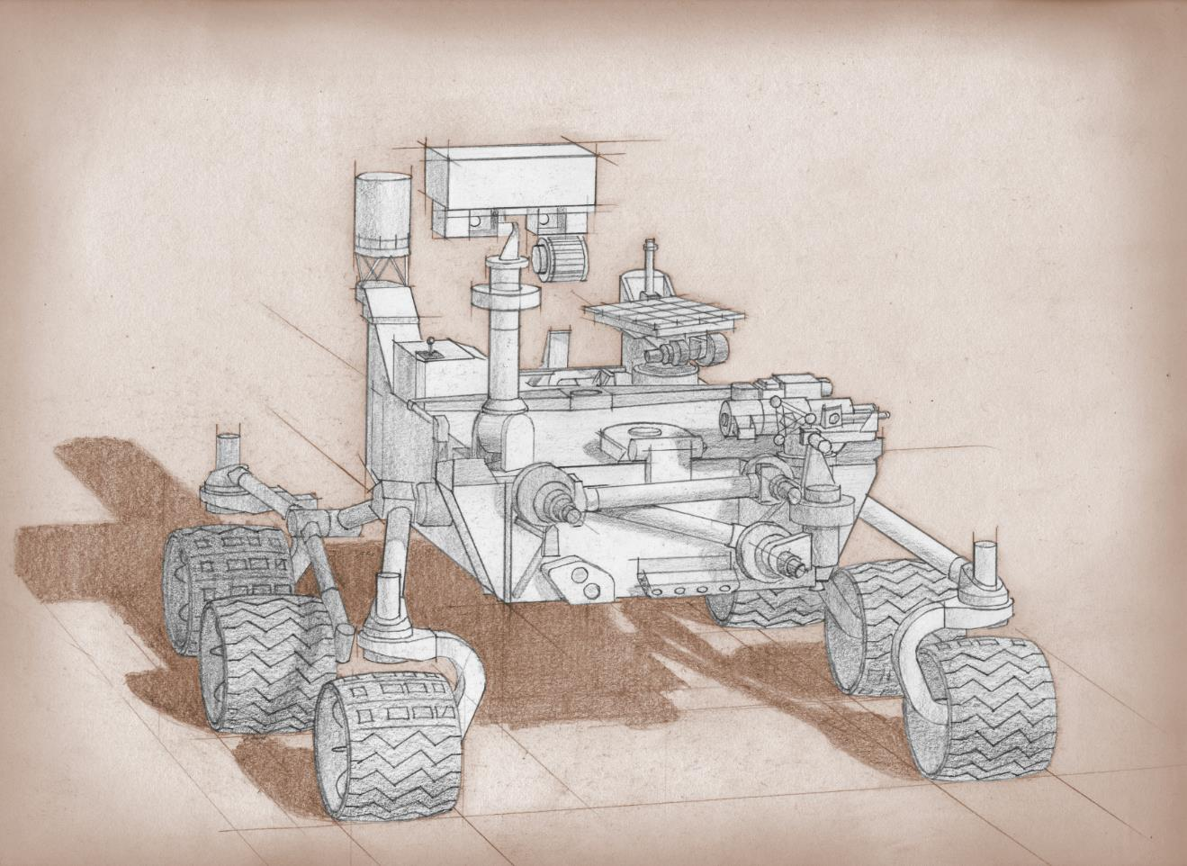 Designing A Mars Rover To Launch In 2020 The rover for this mission would be based on the Mars Science Laboratory's Curiosity rover configuration. It would be car-sized, about 10 feet long (not including the arm), 9 feet wide, and 7 feet tall (about 3 meters long, 2.7 meters wide, and 2.2 meters tall). In some sense, the rover parts for this mission will be similar to what any living creature would need to keep it "alive" and able to explore. The rover would have a: body: a structure that protects the rovers' "vital organs" brains: computers to process information temperature controls: internal heaters, a layer of insulation, and more "neck and head": a mast for the cameras to give the rover a human-scale view eyes and other "senses": cameras and instruments that give the rover information about its environment arm and "hand": a way to extend its reach and collect rock samples for study wheels and "legs": parts for mobility energy: batteries and power communications: antennas for "speaking" and "listening" The specific components would depend on current pre-project planning and the development of science objectives.